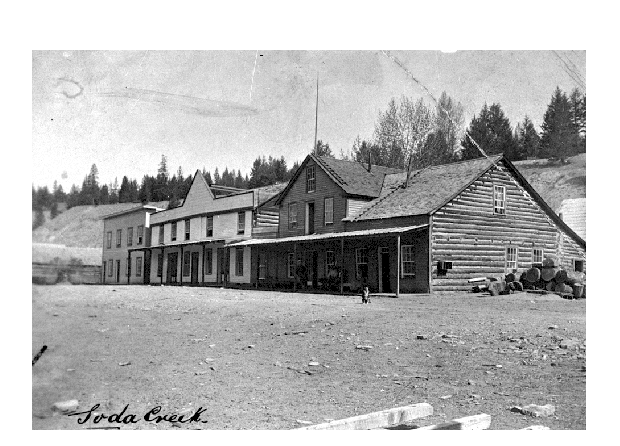 Soda Creek (gold rush town) — on upper Fraser River in British Columbia (c. 1890s). Photographer Unknown Photo taken 189? Source BC Archives # A-03910 [1]